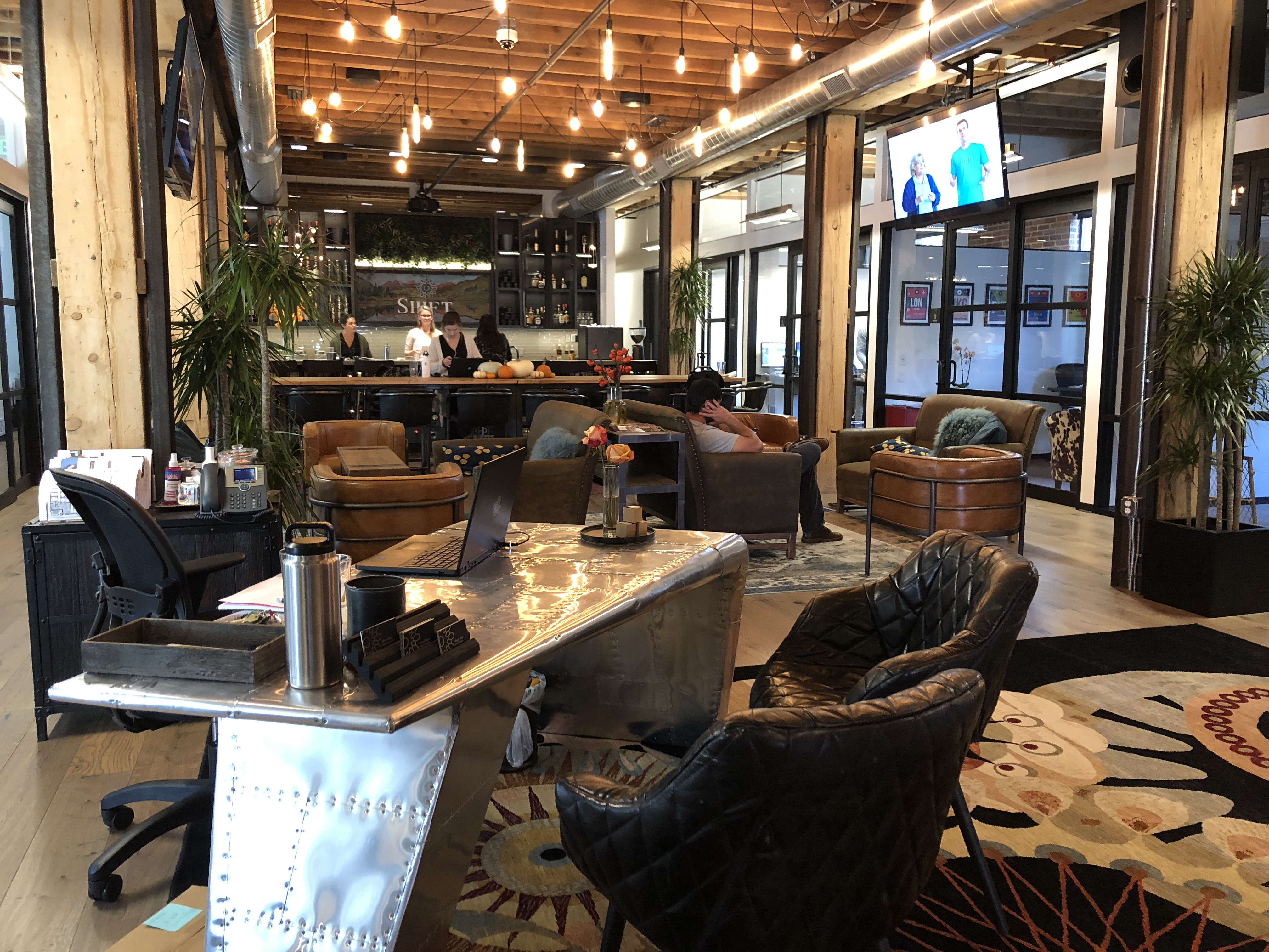 Think Company Denver Studio